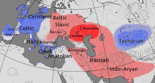 Indoeuropean Language around 2500 Before Present = 500 Before Christ. Centum languages are in blue, Satem languages are in red